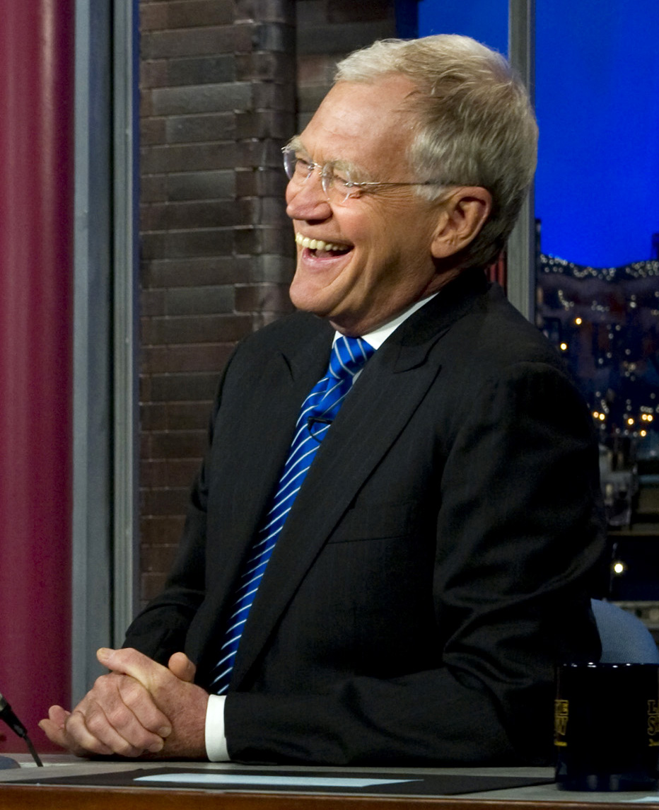 David Letterman during an interview on the Late Show in New York City.